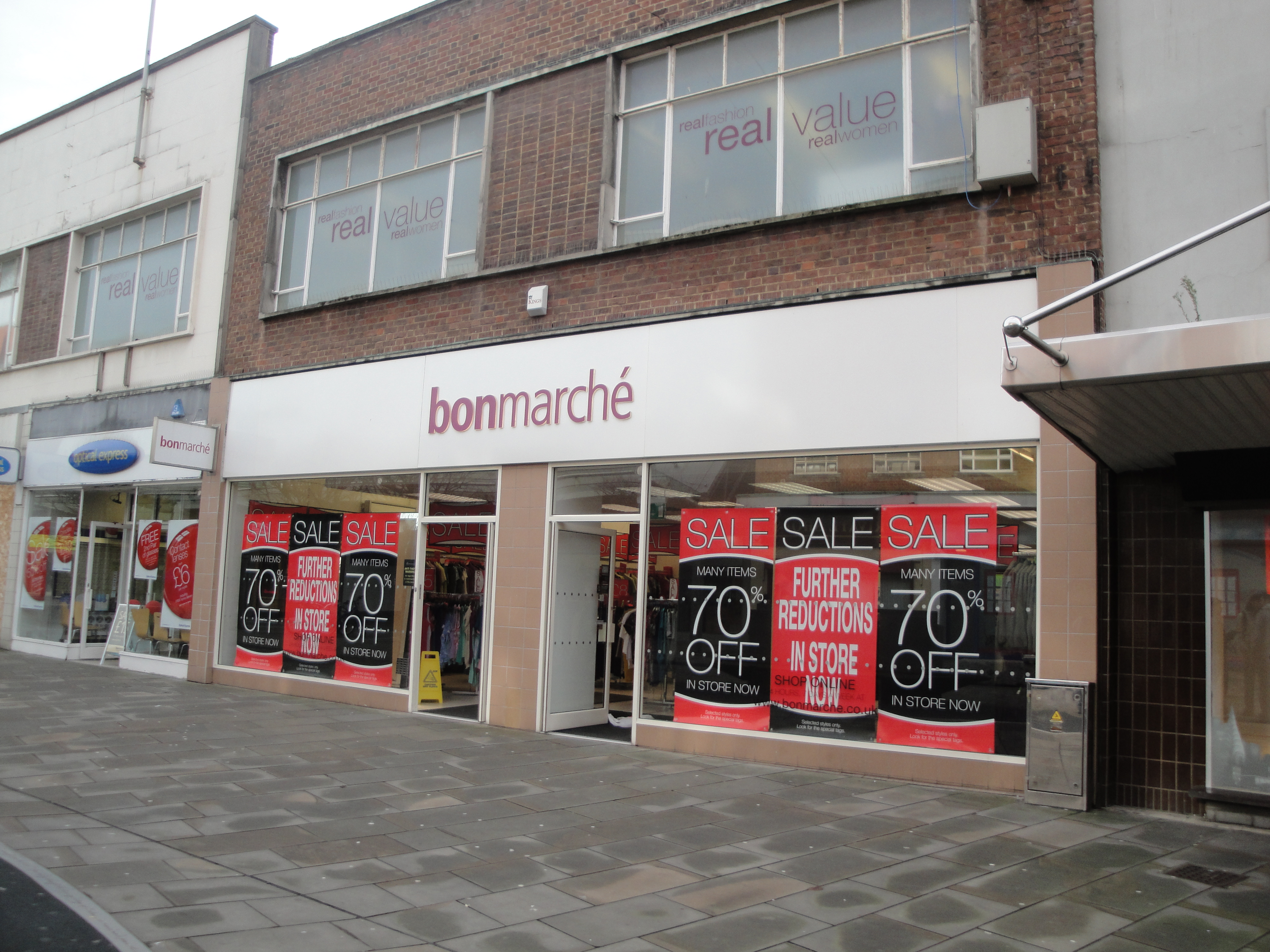 A branch of Bon Marche, in Arundel Street, Portsmouth, Hampshire, in January 2012. At the time, the company had gone into administration, leaving the future of its stores uncertain. It has since been saved, however.